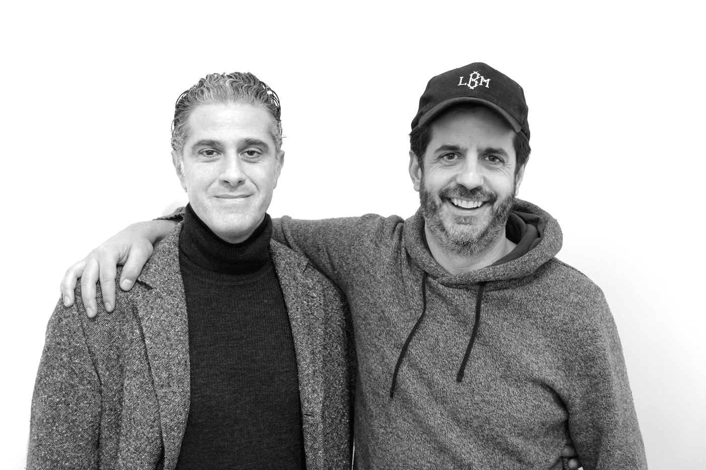 Studio friends